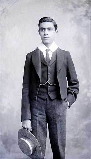 Jawaharlal Nehru, at Harrow School, England, at the age of fifteen, in 1905